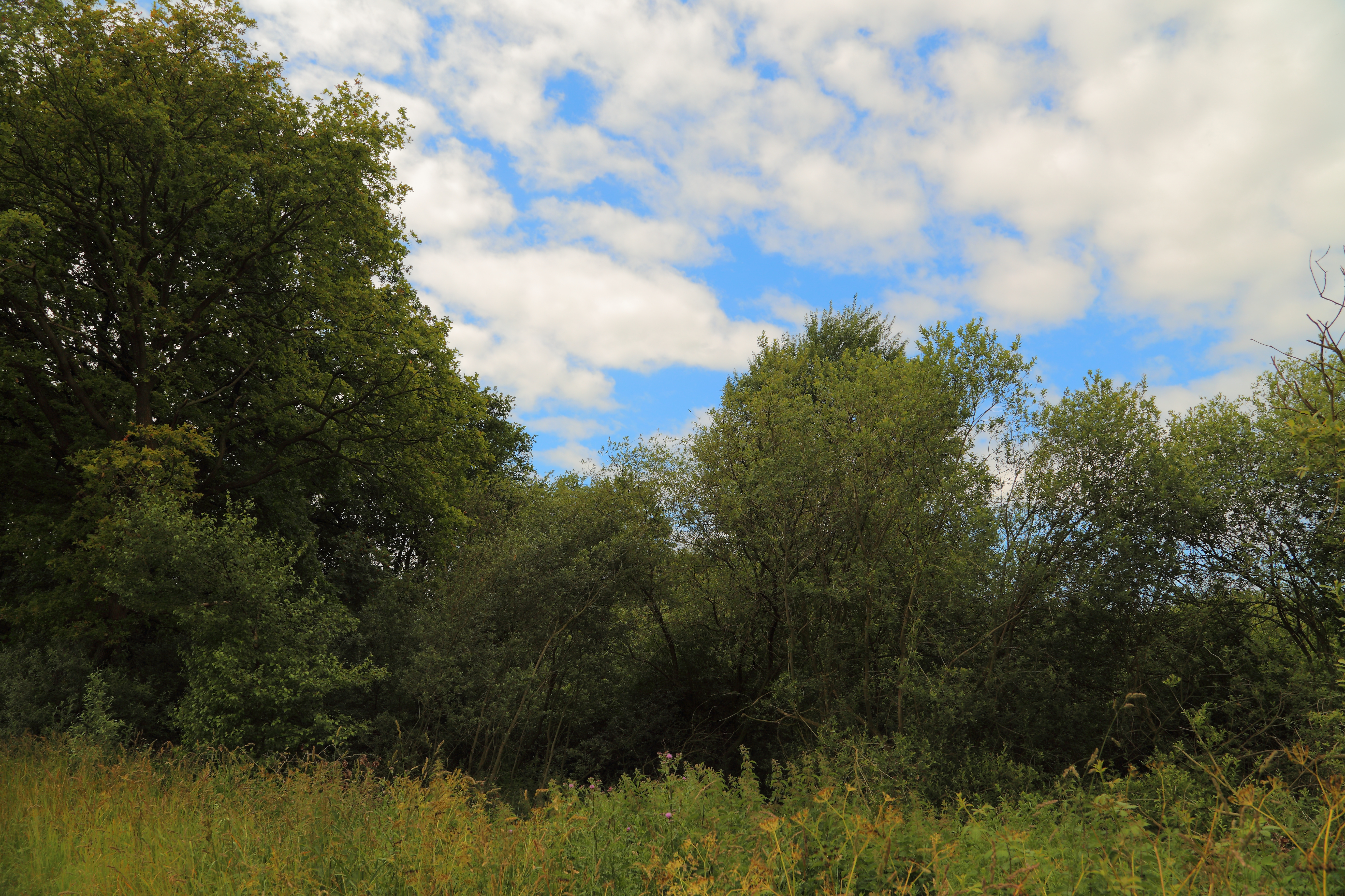 At the southern edge of the nature reserve (Naturschutzgebiet) „Neuenkirchener Moor“ in Neuenkirchen, Landkreis Osnabrück, Lower Saxony, Germany.